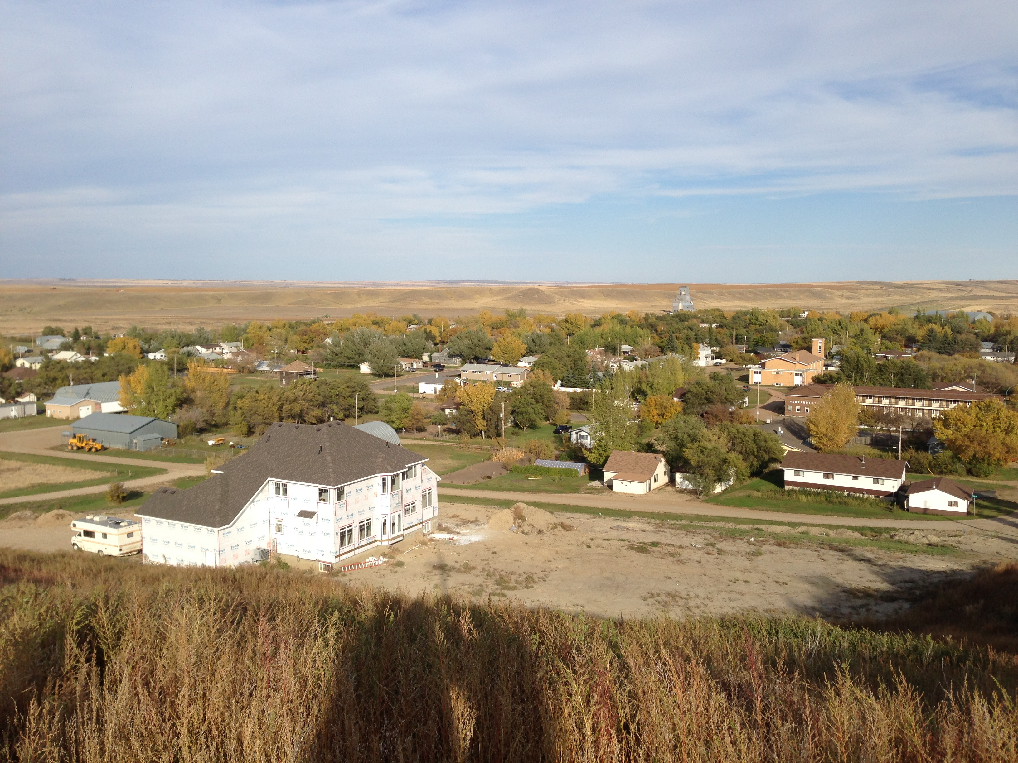 Bird's eye view of Willow Bunch